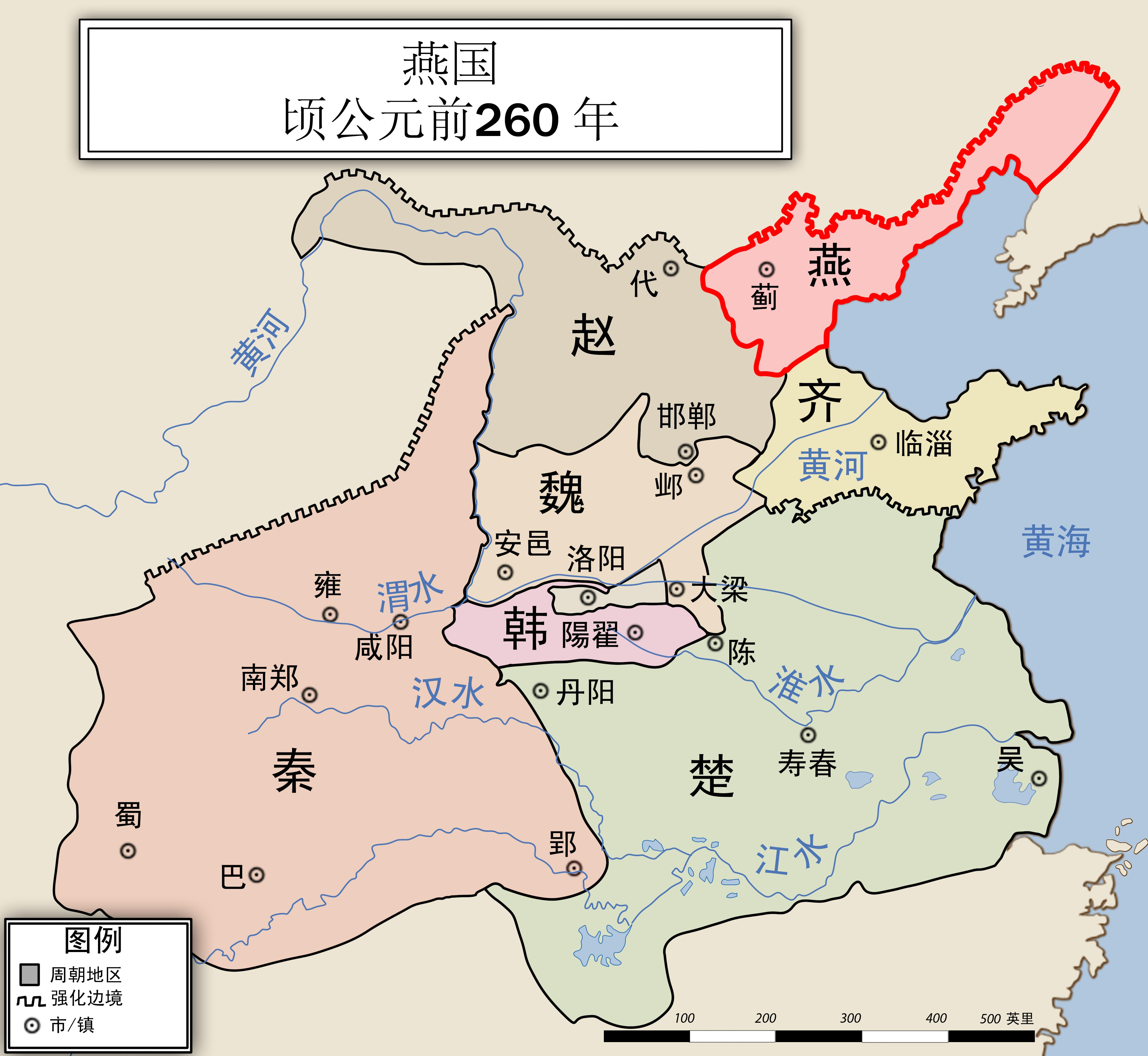 China Map, Yan State, 260BCE